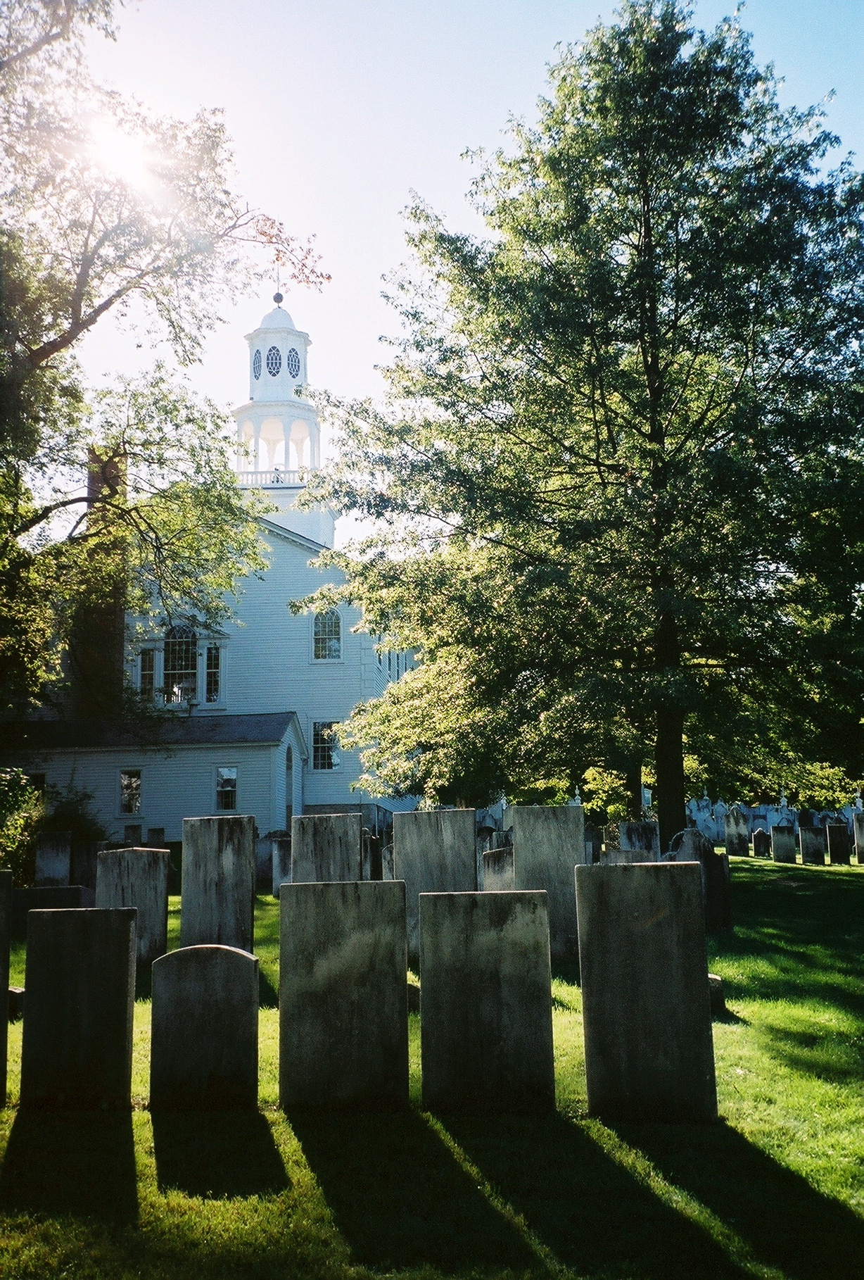 View from cemetery in rear.